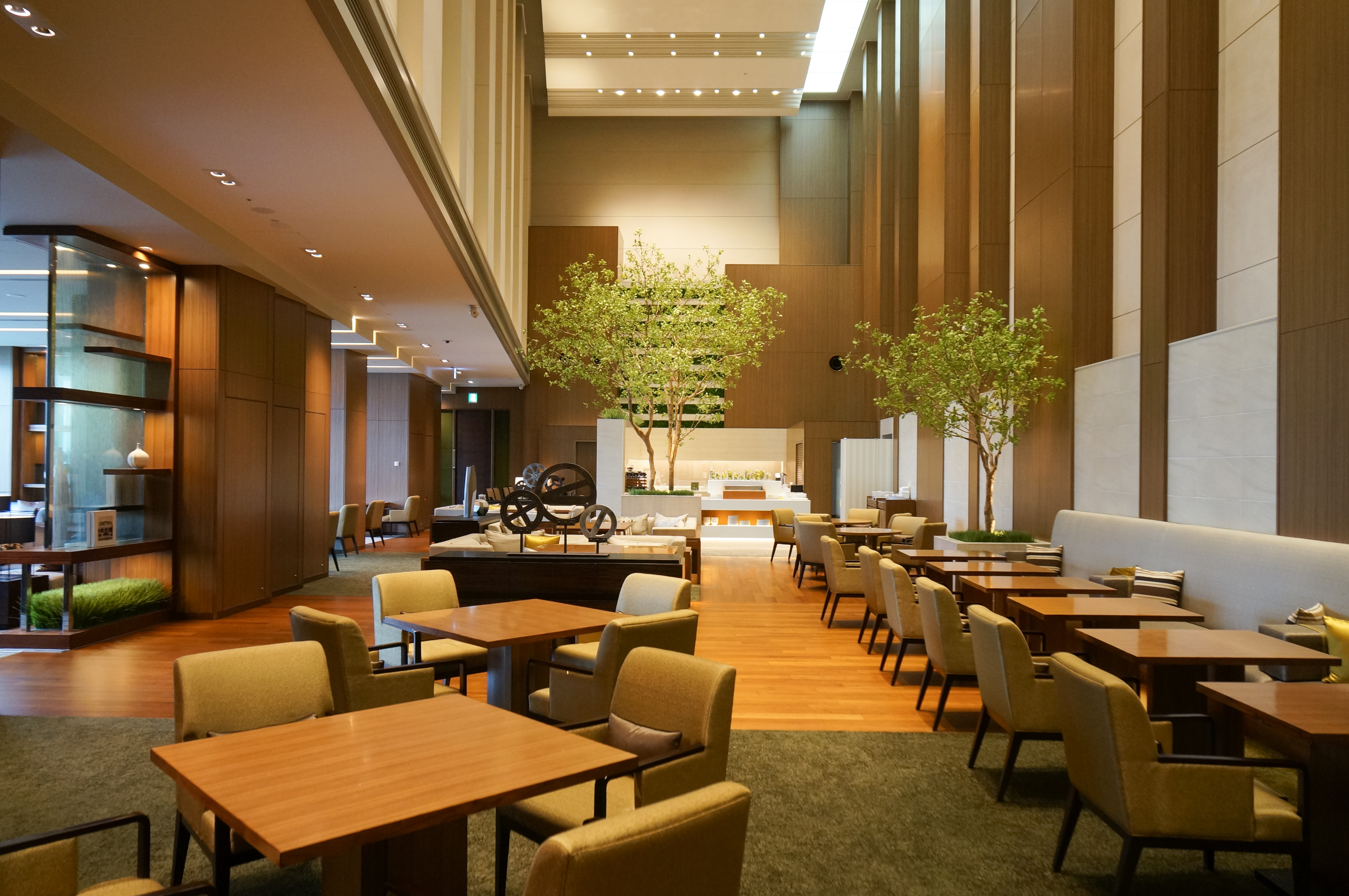 The inside of the "Club Lounge" on the 38th floor of Osaka Marriott Miyako Hotel in Abeno-ku, Osaka, Japan